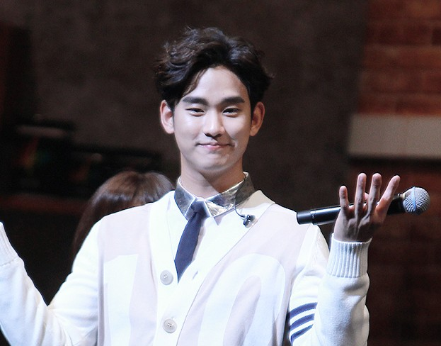 Kim Soo-hyun at the Japanese fanmeeting in Yokohama, 18 May 2014